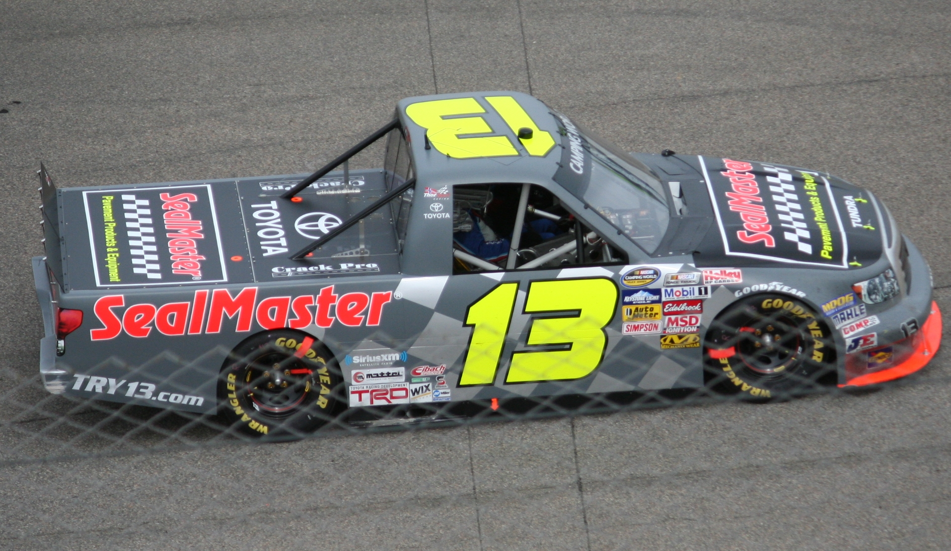 Todd Bodine drives the No. 13 SealMaster Toyota during the North Carolina Education Lottery 200 at Rockingham Speedway, Rockingham, NC, April 14, 2013